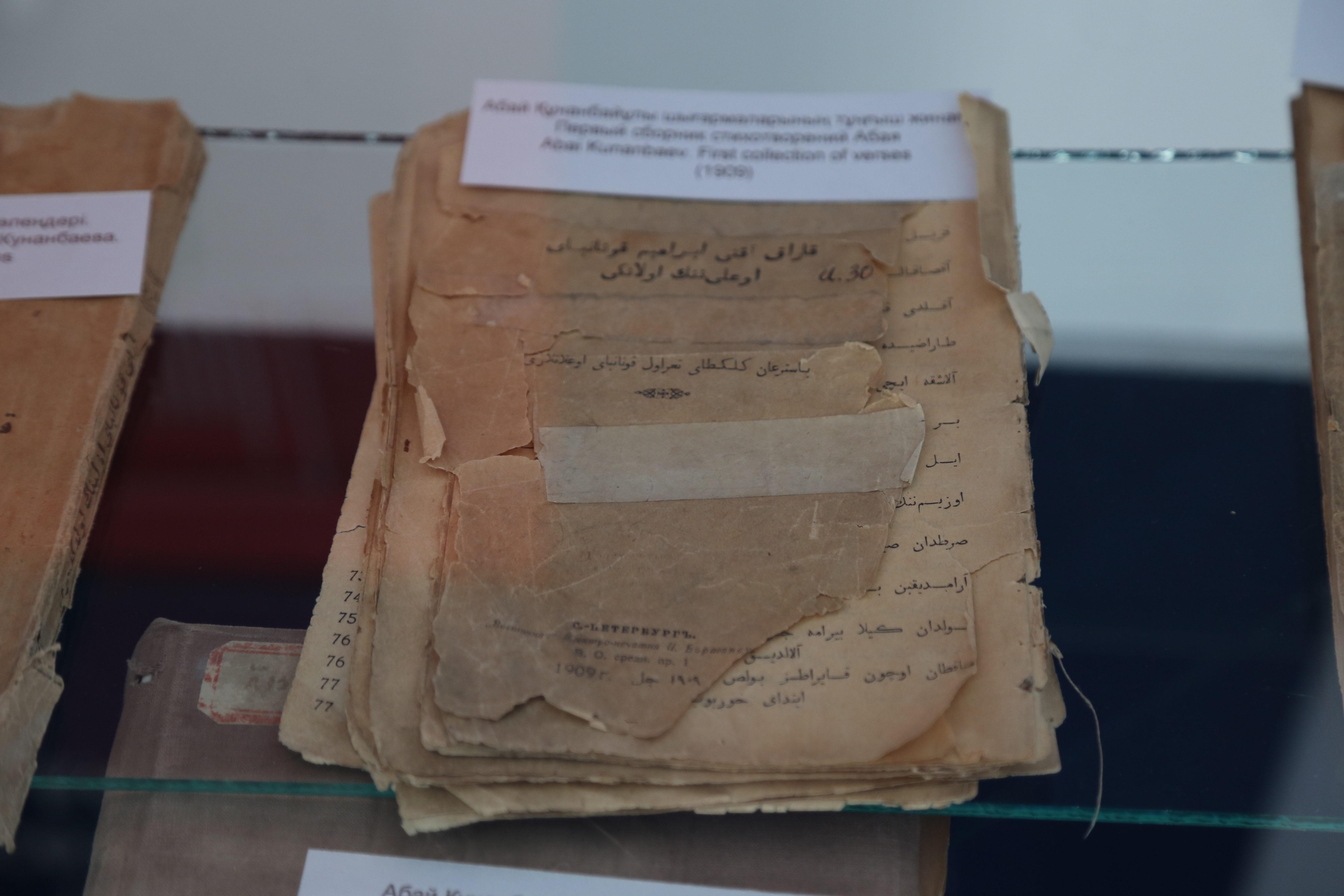 First Collection of Abay